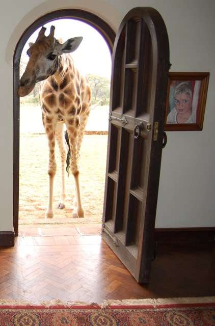 A Rothschild giraffe at Giraffe Manor, Nairobi, Kenya, sticking its head through the front door of the property